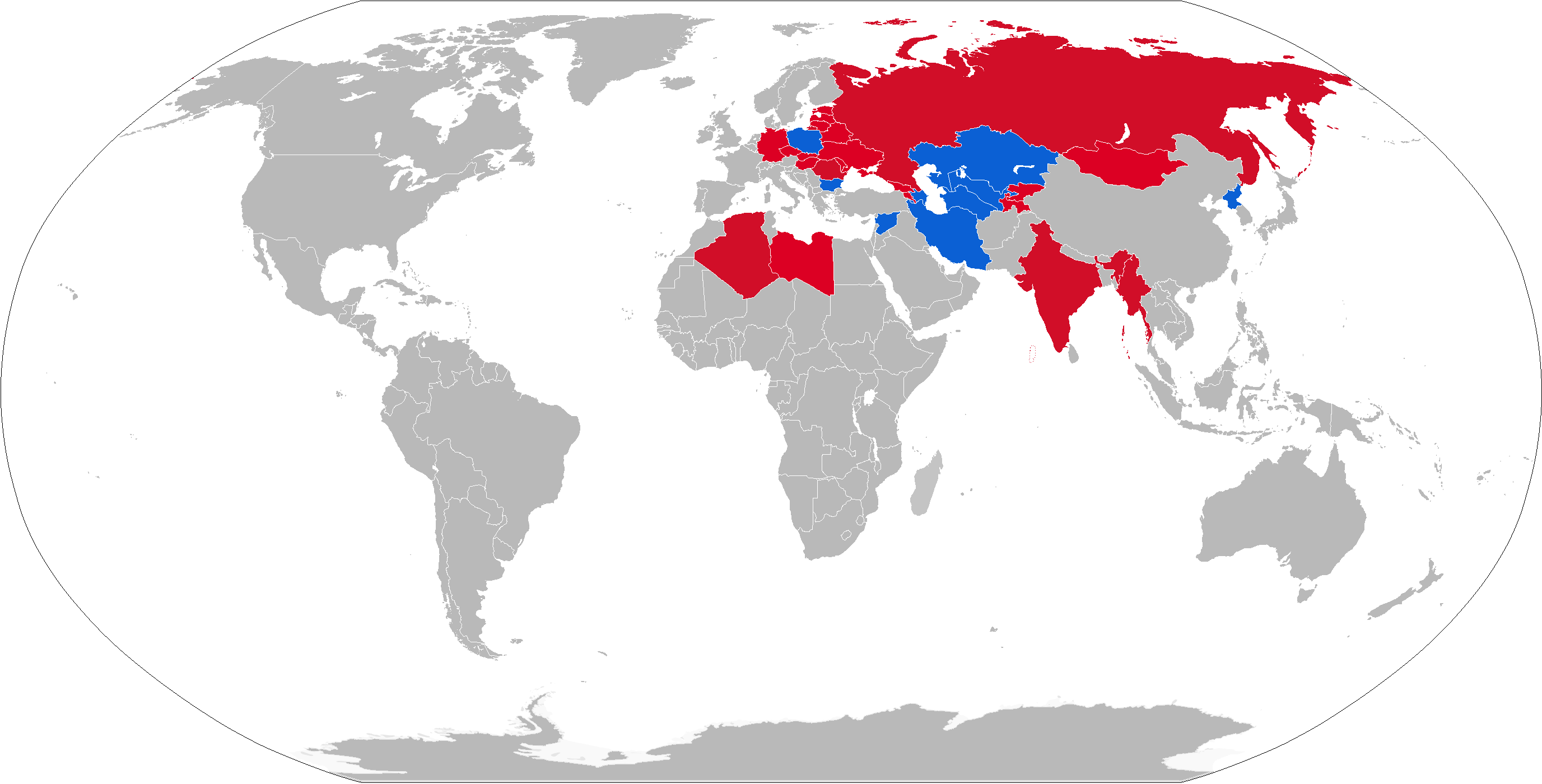 Map of S-200 operators in blue with former operators in red